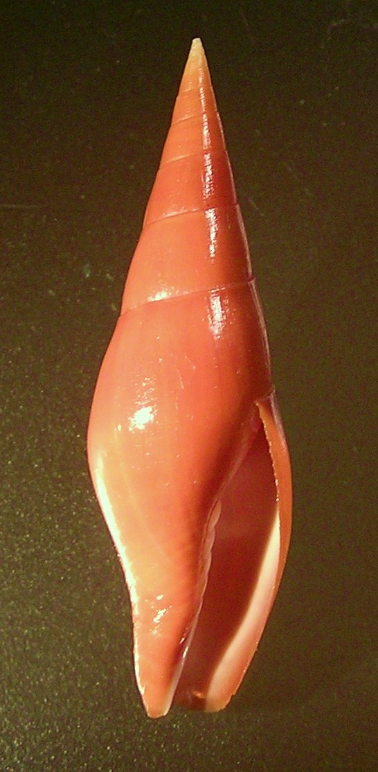 Mitra (Mitra) pele Cernohorsky, 1970, family Mitridae; Philippines Category:Mitridae